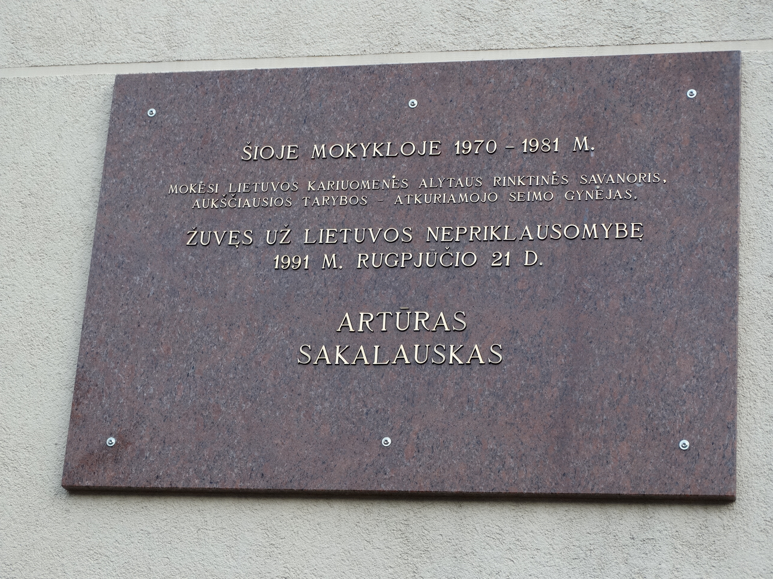 Memorial plaque to A. Sakalauskas, Dainava Basic School, Alytus, Lithuania